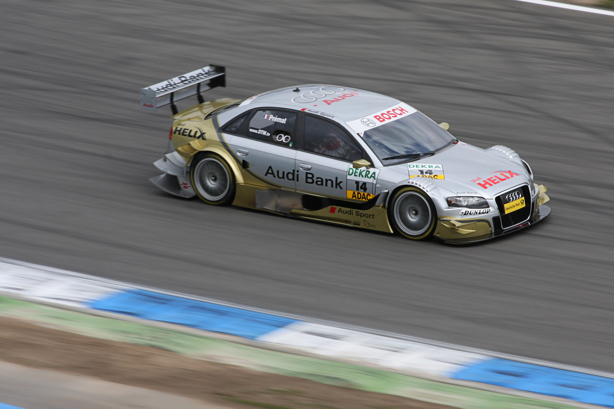 DTM racing car Audi Season 2008, Alexandre Prémat (driver).